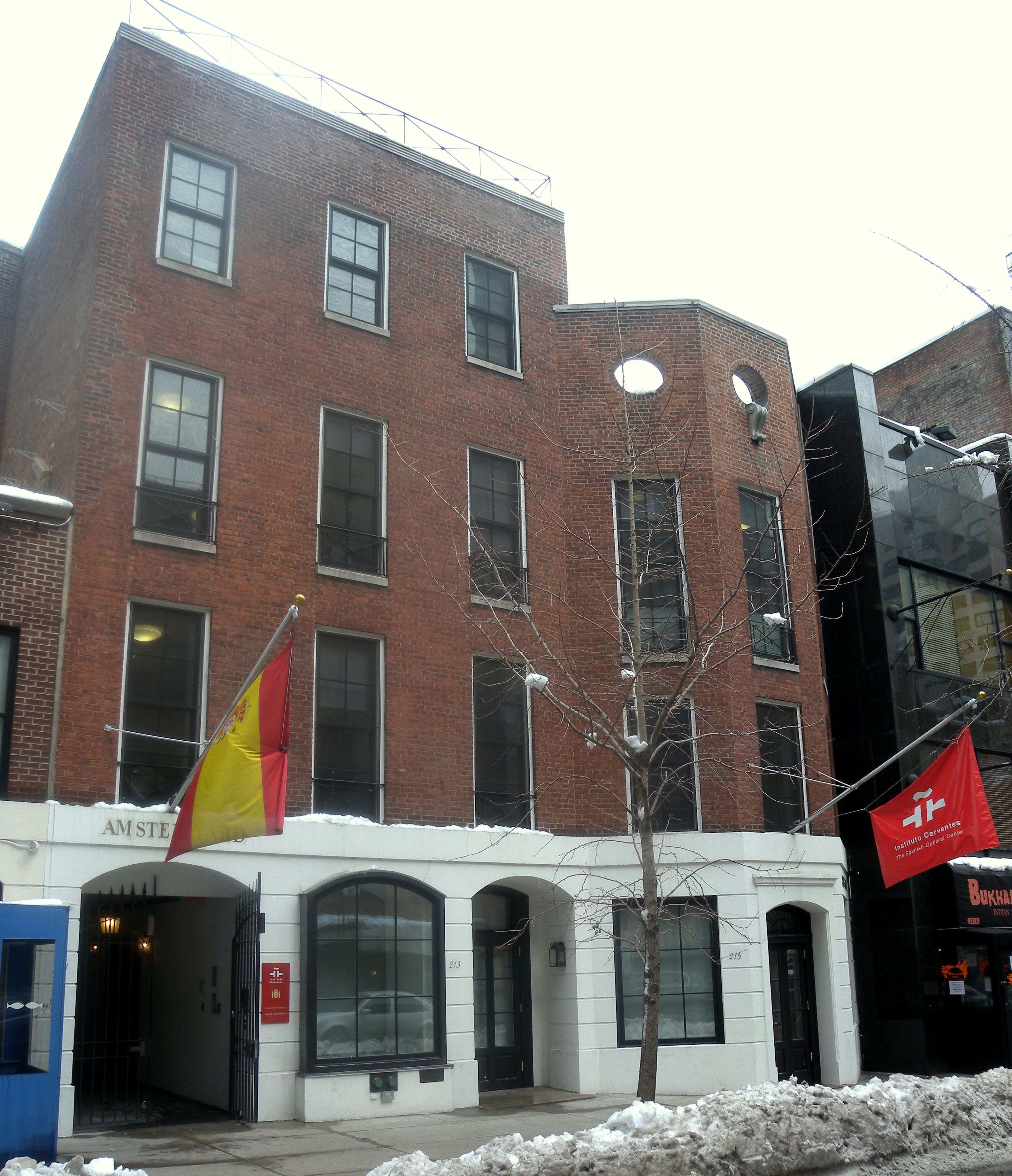 New York - Looking northeast across 49th at Instituto on a cloudy day. ZIP 10017.